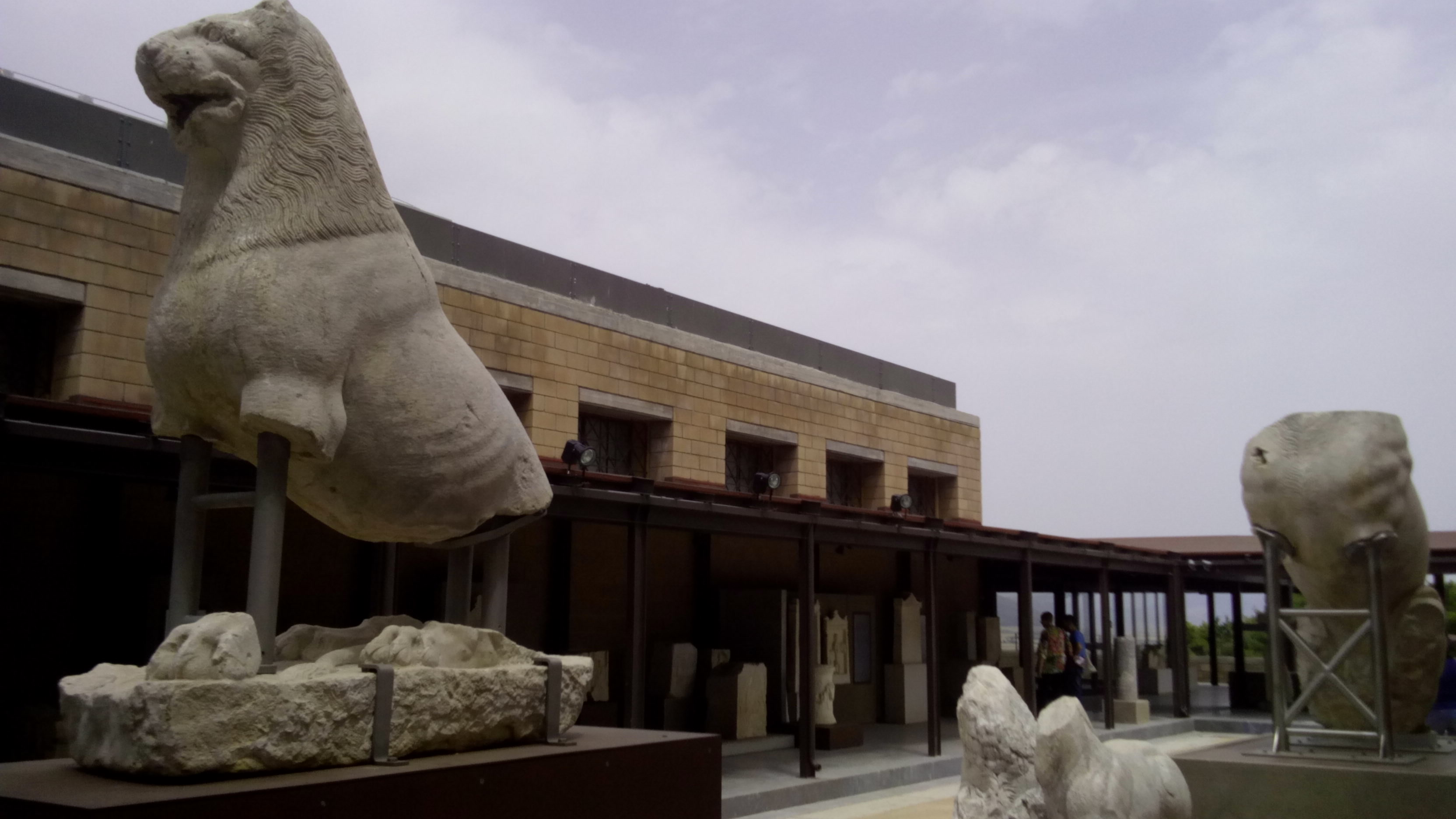 The courtyard of the Arcaeological Museum of Thebes, Greece